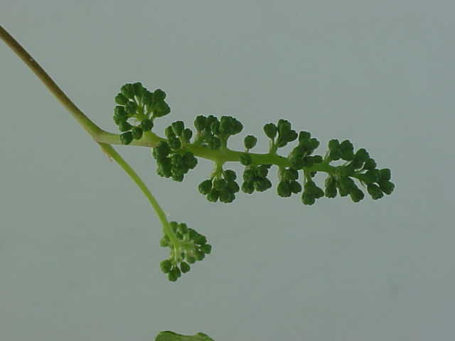 Species: Vitis vinifera Family: Vitaceae Image No. 2